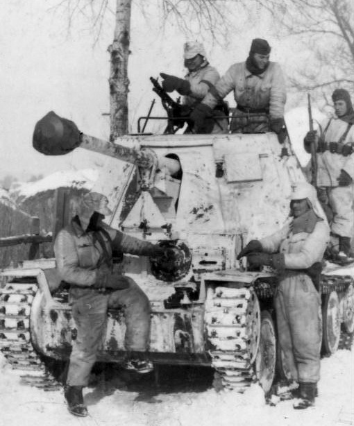 Information added by Wikimedia users.